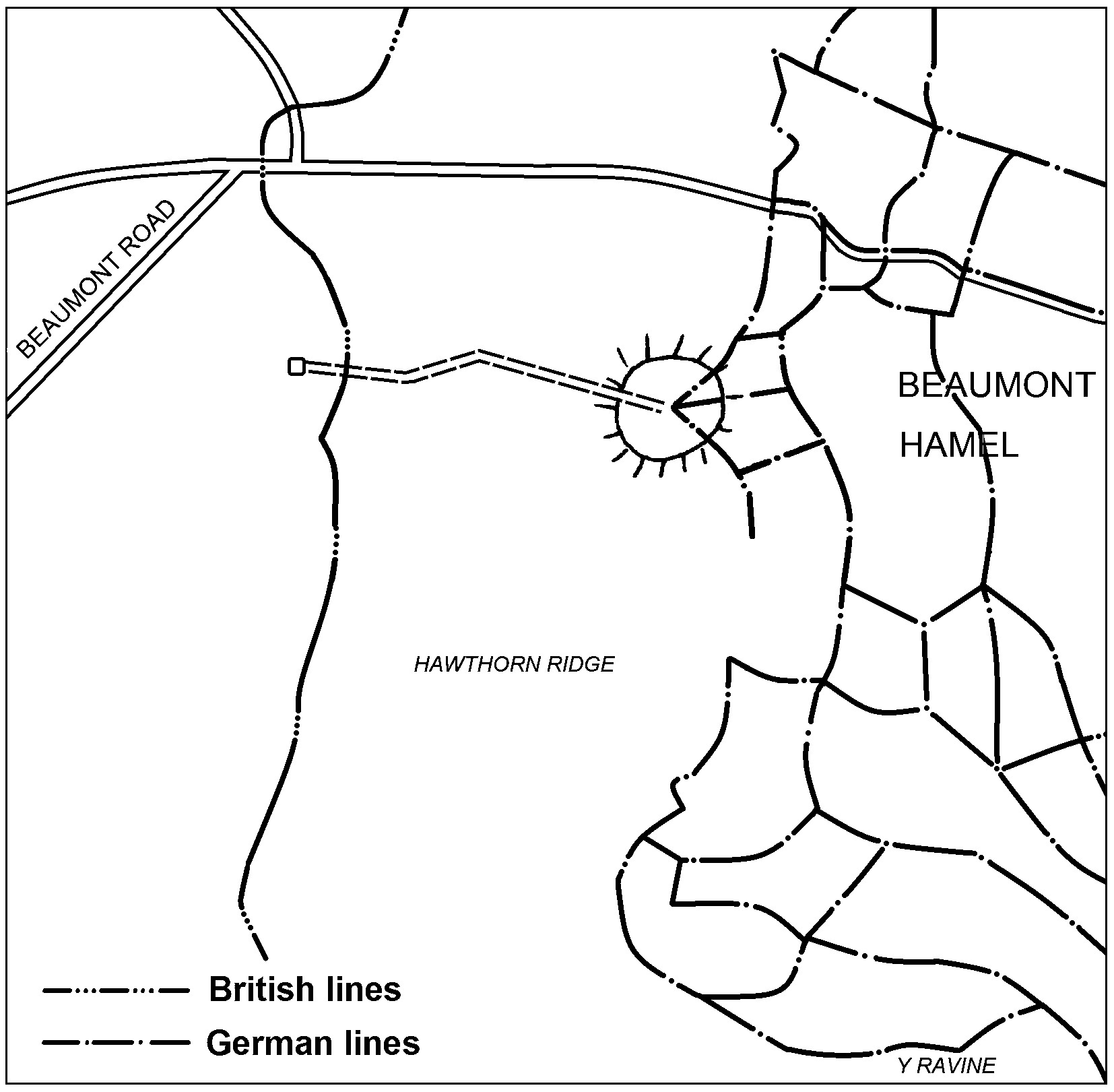 Plan of the H3 (Hawthorn Ridge Redoubt) mine at Beaumont-Hamel, fired by the British at the start of the Battle of the Somme 1916. This drawing is based on the plans published in Simon Jones, Underground Warfare 1914-1918, Barnsley (Pen & Sword Books) 2010, p. 116.